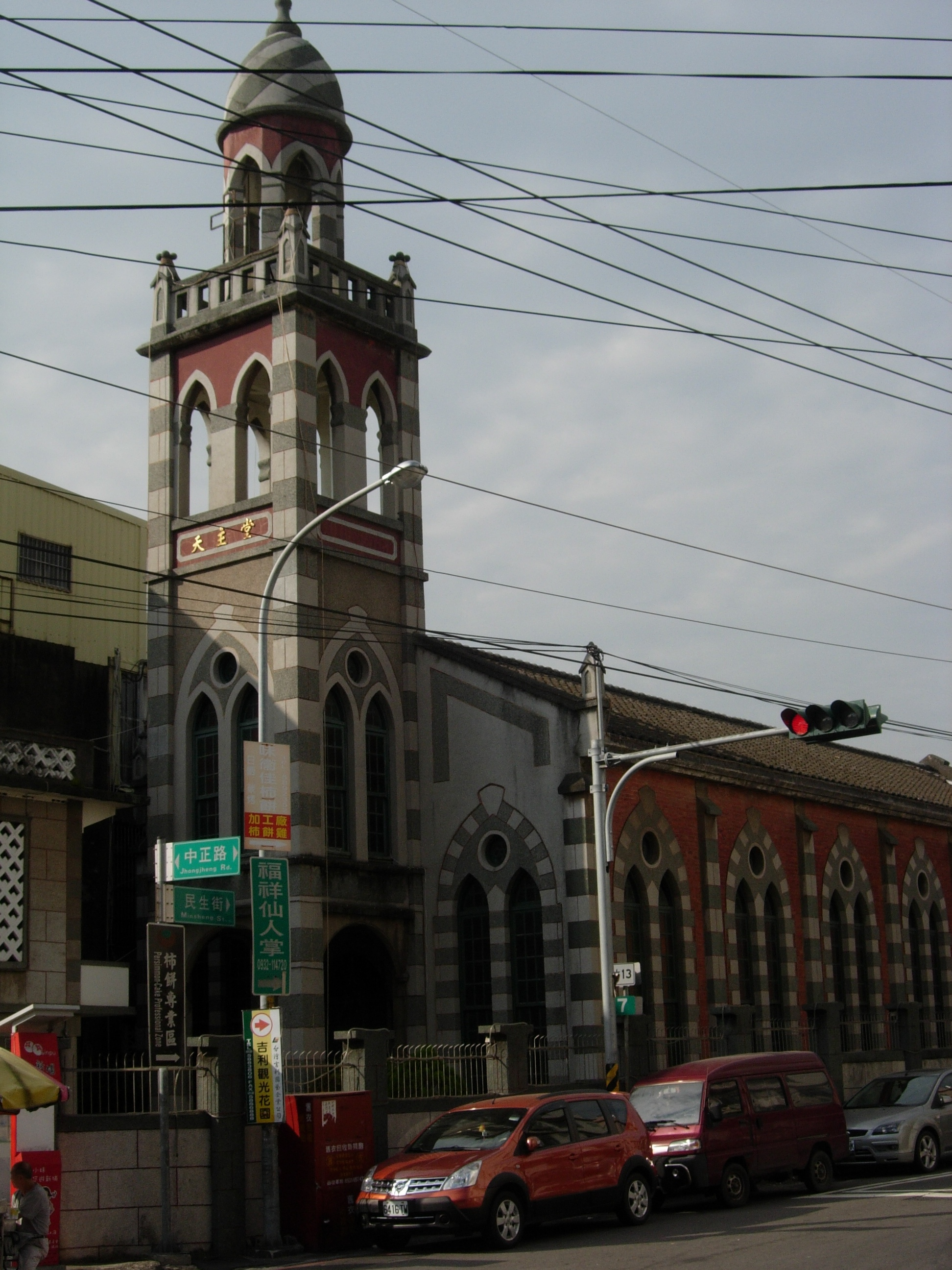 Hsinpu Church中文（台灣）: 新埔天主堂